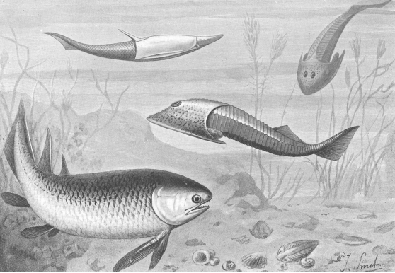 Silurian fishes